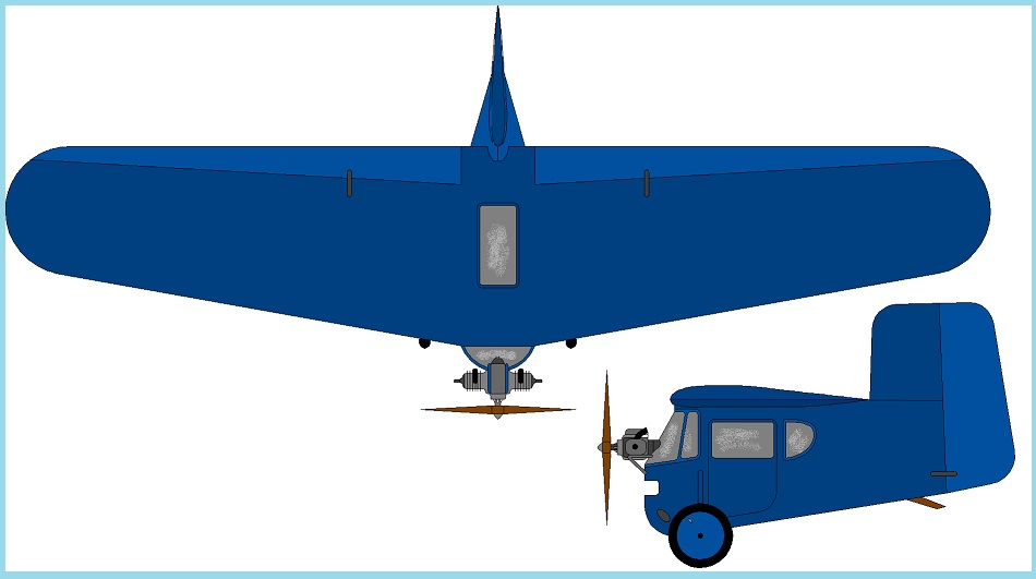 Filip Mihail Stabiloplan IV